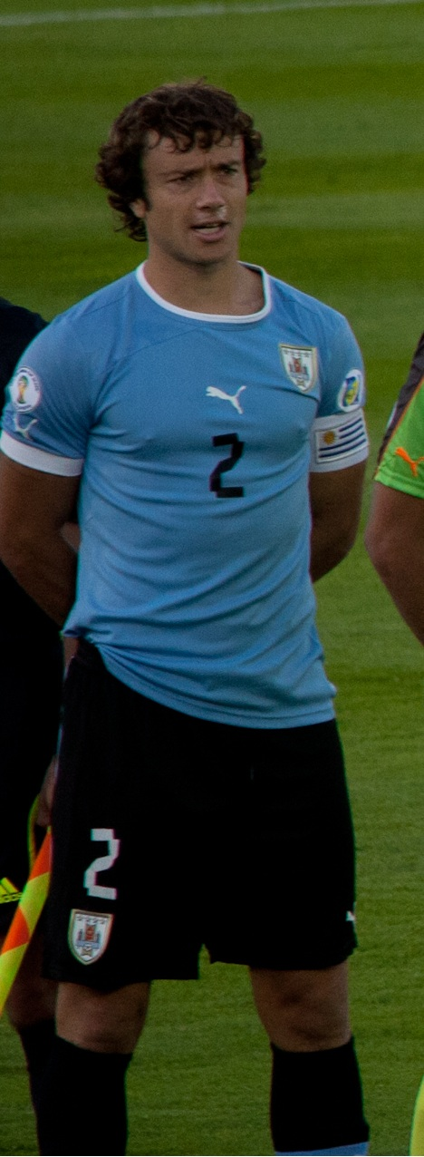 Uruguayan football player, Diego Lugano, singing the uruguayan national anthem before playing for the national team against Chile in the 3rd matchday of the 2014 FIFA World Cup southamerican qualifiers in the Estadio Centenario of Montevideo.